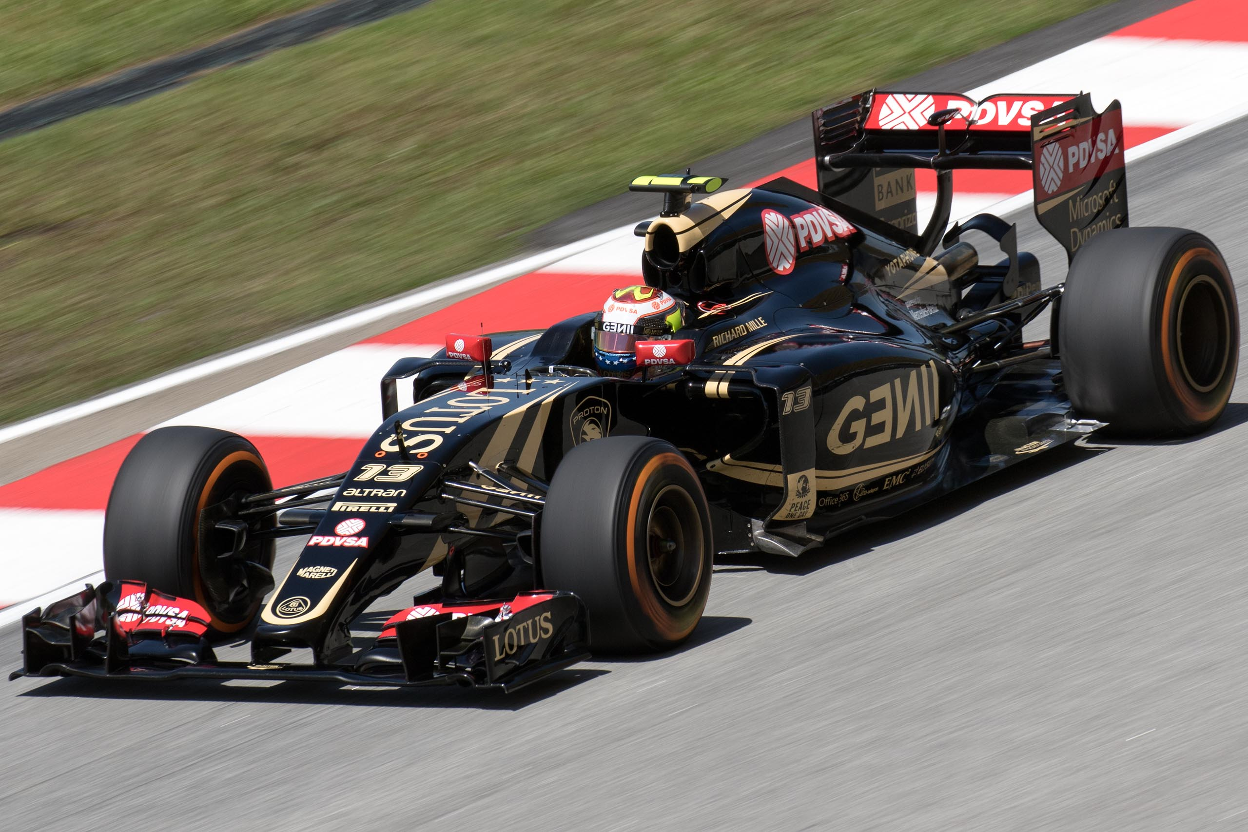 Formula One 2015 Rd.2 Malaysian GP: Pastor Maldonado (Lotus)